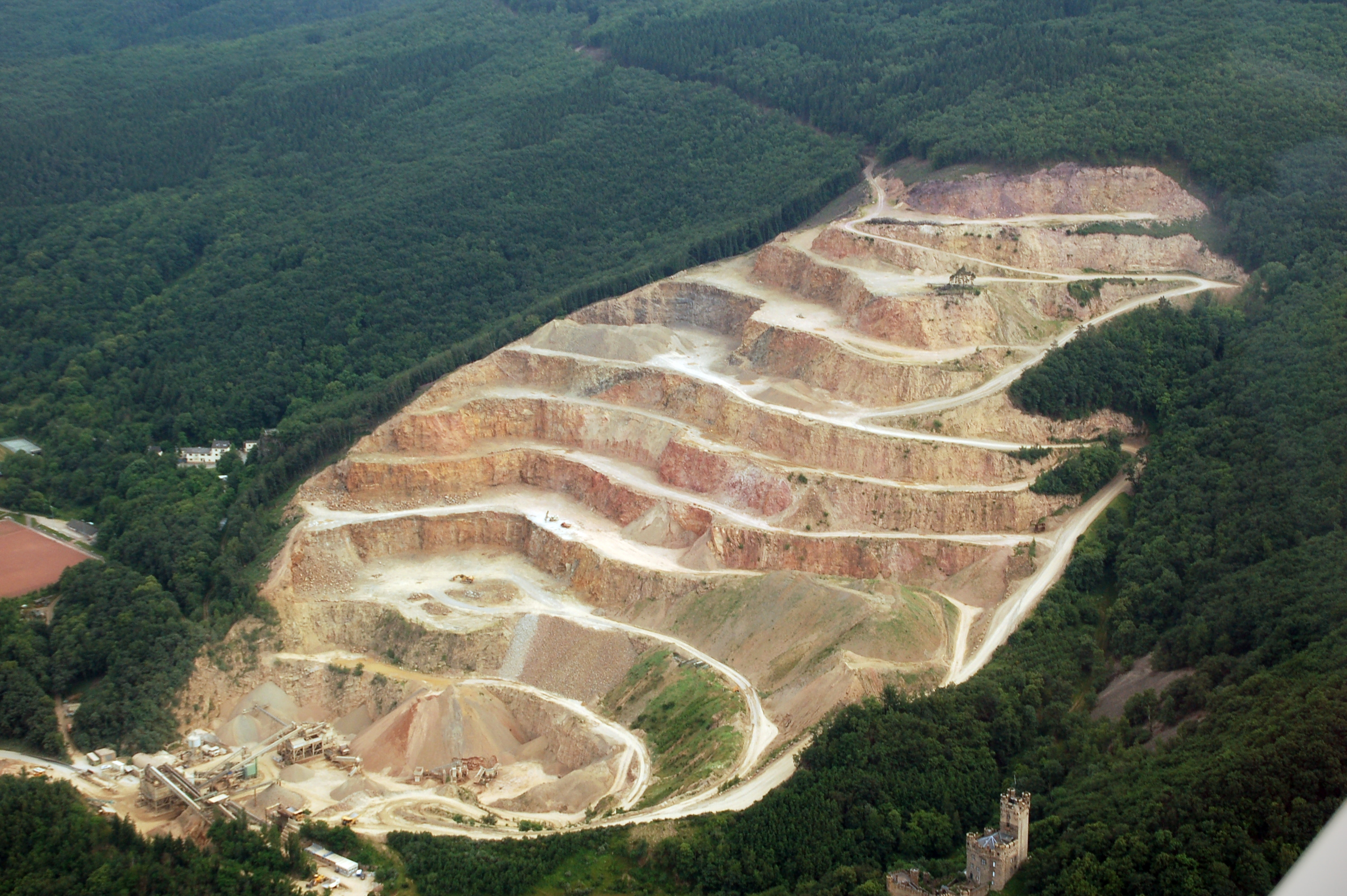 Aerial photograph of Trechtingshausen, Rhineland-Palatinate, Germany